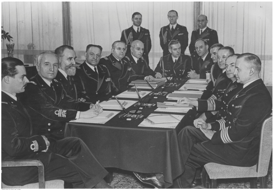 Conference of Merano, (left side table): Arturo Riccardi led the Italian Royal Navy delegation, along with Raffaele de Courten, Emilio Brenta, and Carlo Giartosio. (Right side table): Erich Raeder (third from the right).